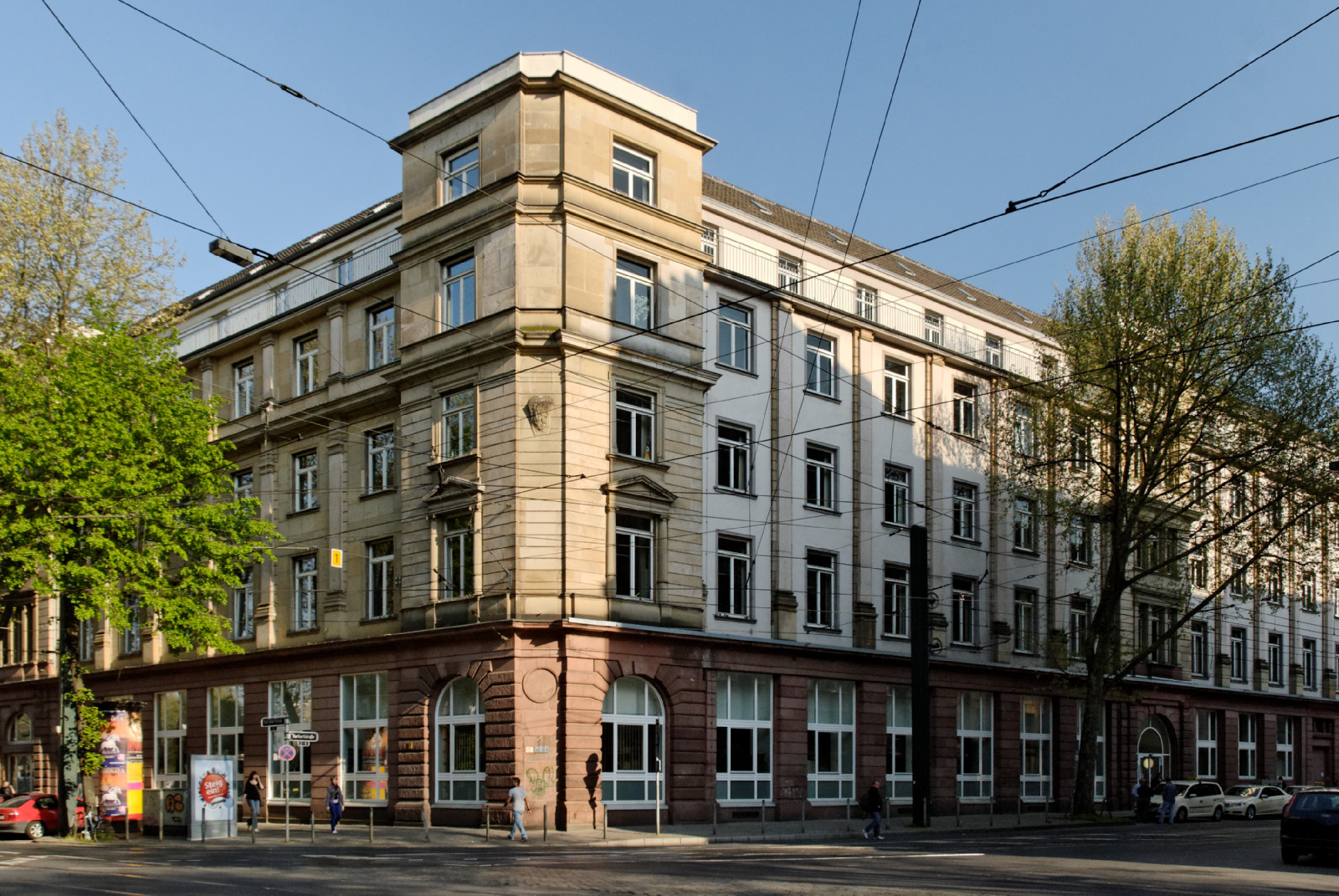 Hansahaus in Düsseldorf-Stadtmitte, Germany